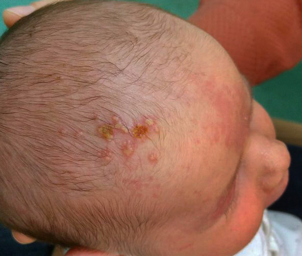 Lesions (bouquets of vesicles) resulting from the cutaneo-mucous form of herpes simplex (here a day after the start of treatment which consisted of three injections of Aciclovir)